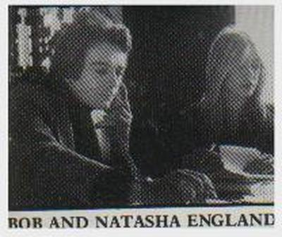 Bob and Natasha England, pictured in 1980